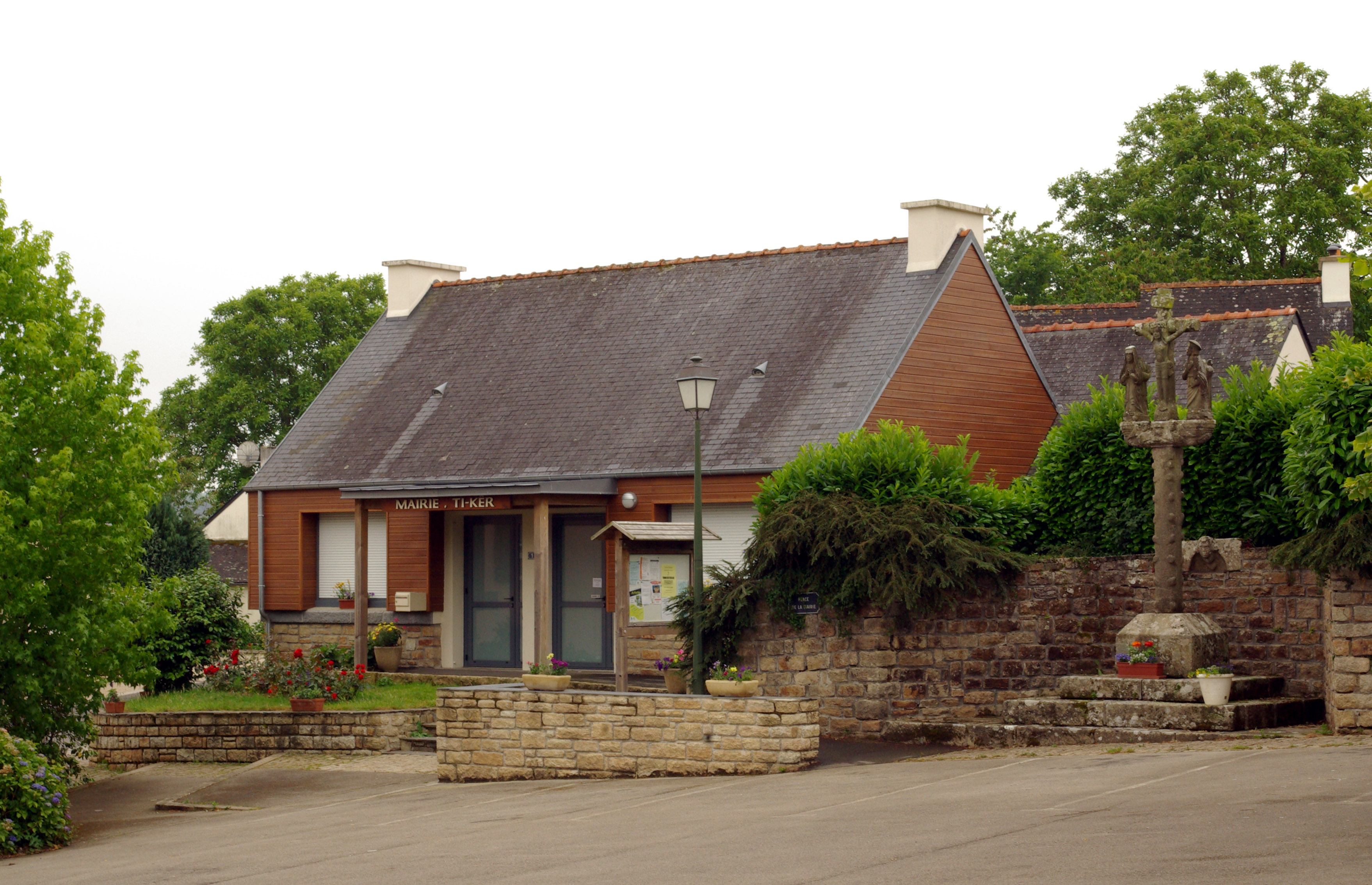 City Hall of Saint-Thois